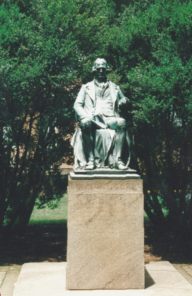 located at University of Virginia